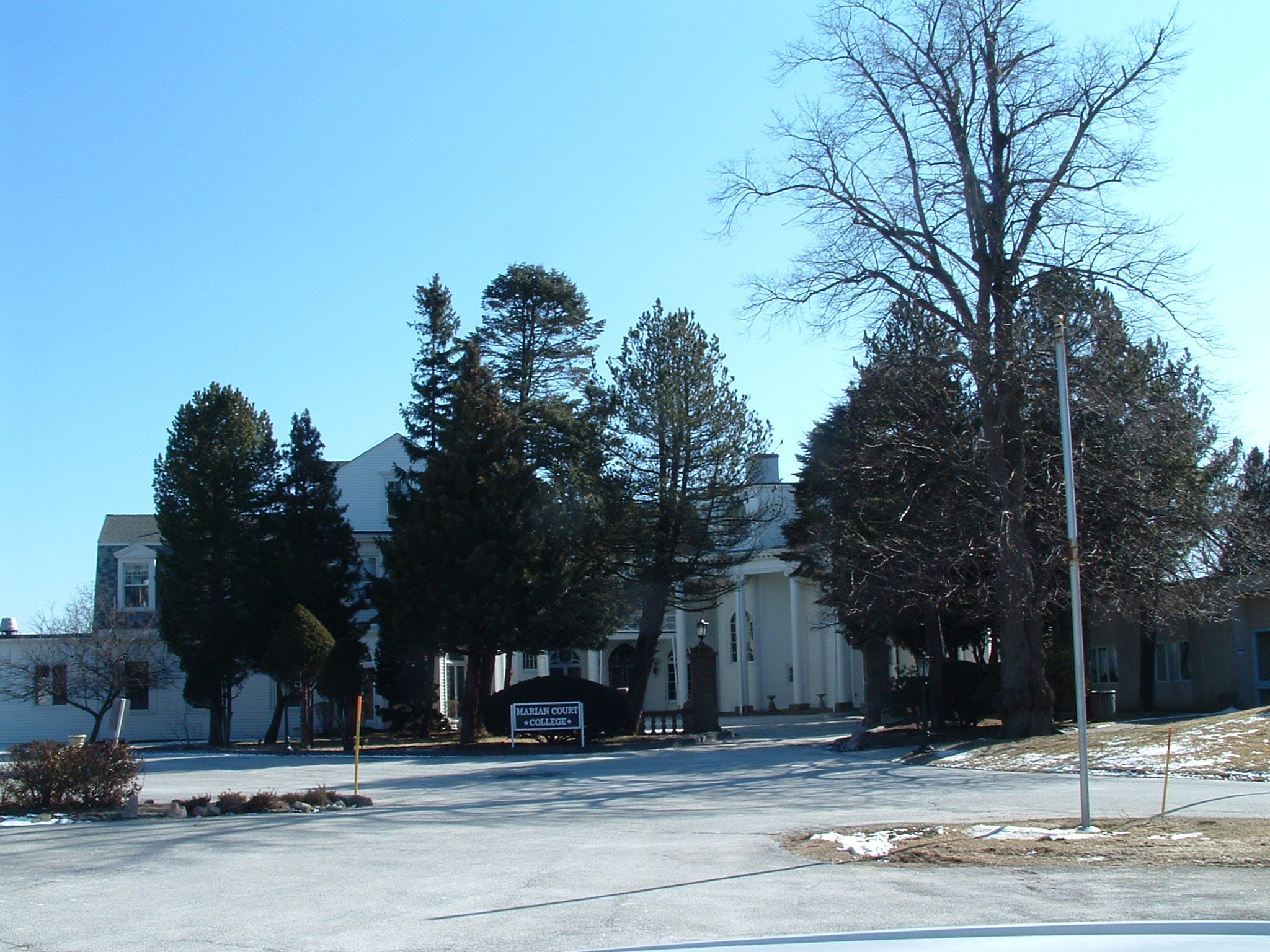 Marian Court College, Swampscott, Massachusetts